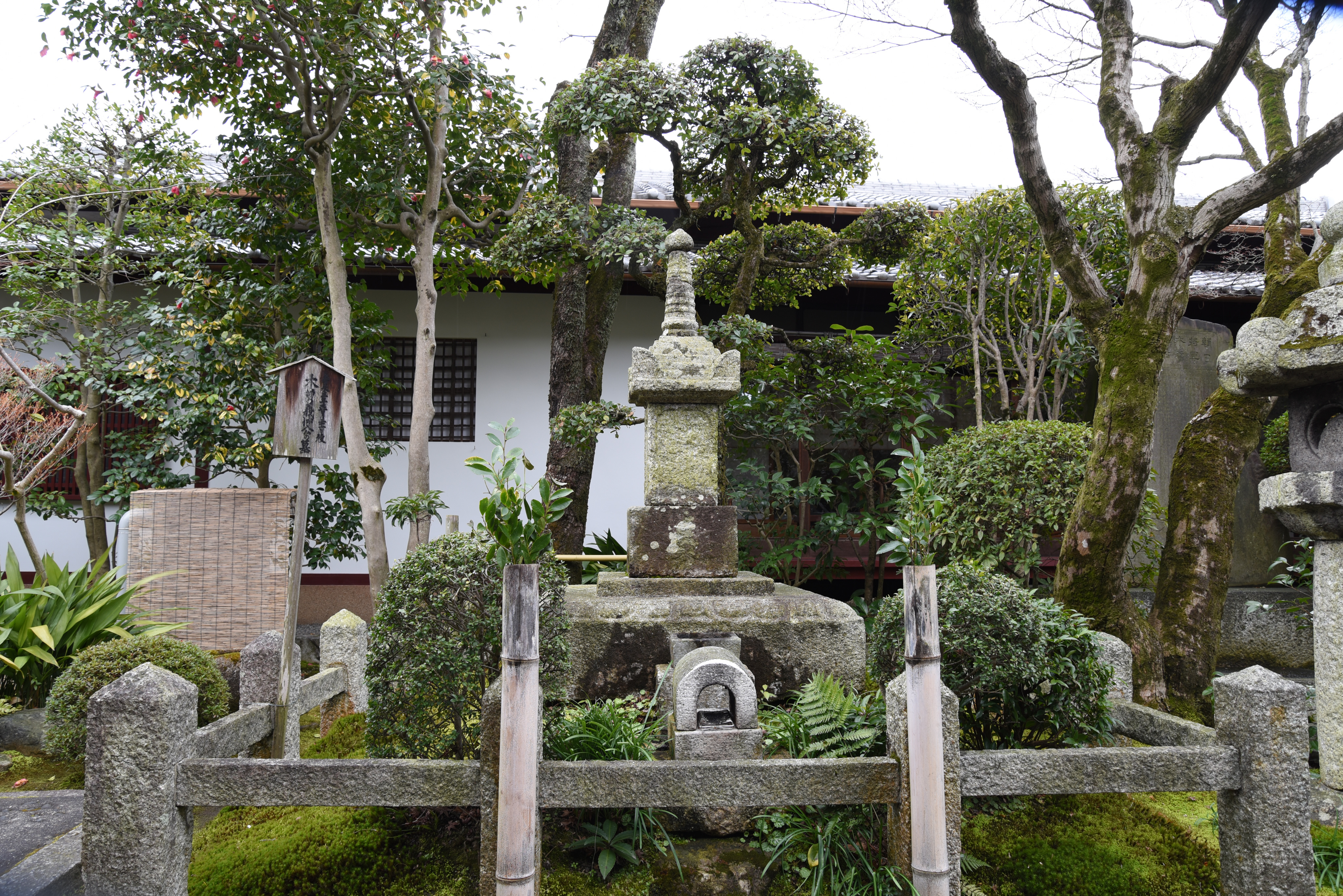 This is not Art. This picture is Japanese samurai's tomb who name is Yoshinaka Kiso, in Shiga prefecture.